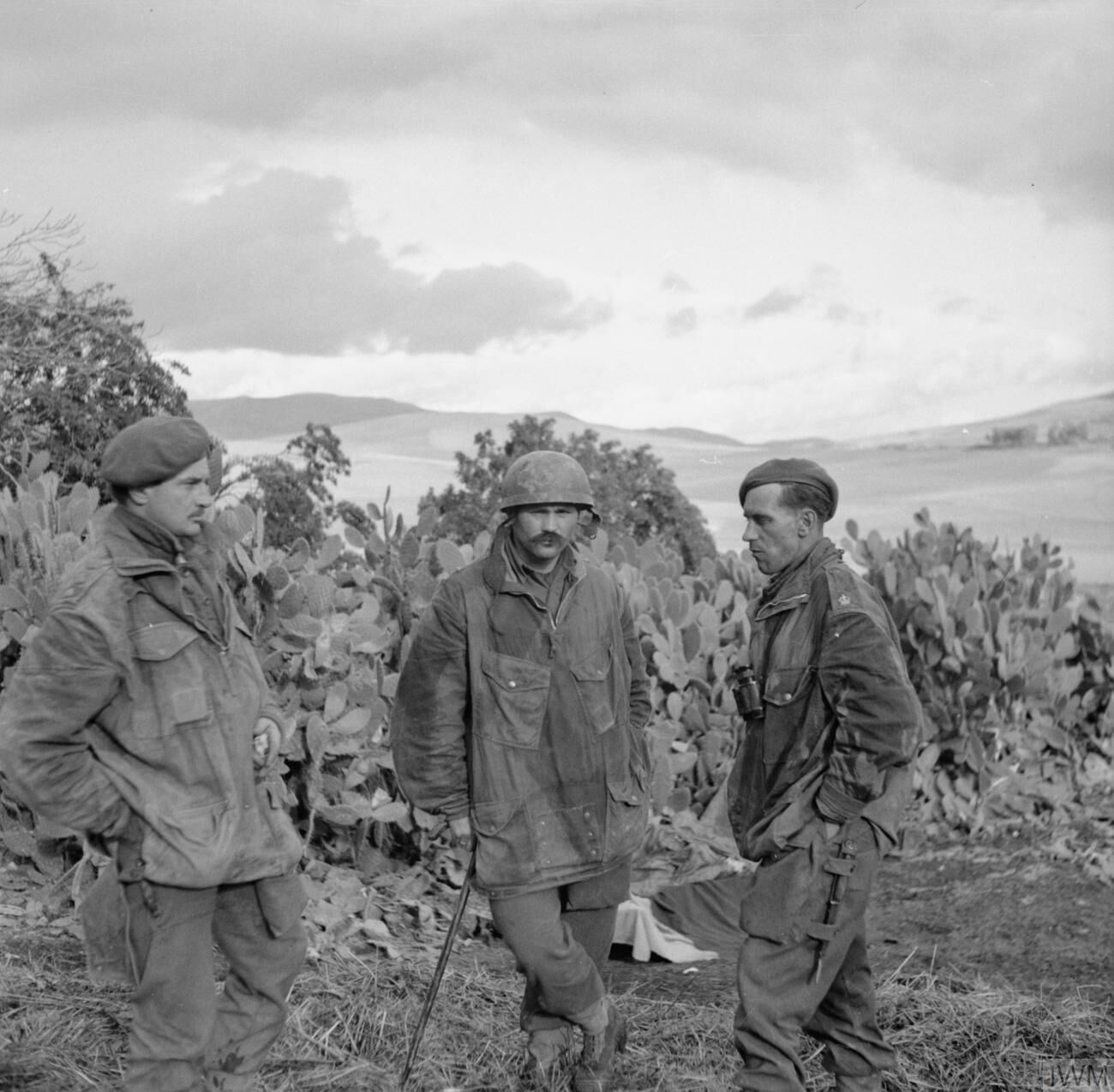 Officers from the 2nd Battalion, Parachute Regiment resting near Beja after returning from a drop on Depienne. From left to right: Captain Stark, Lieutenant Braylet and Major Ashford.